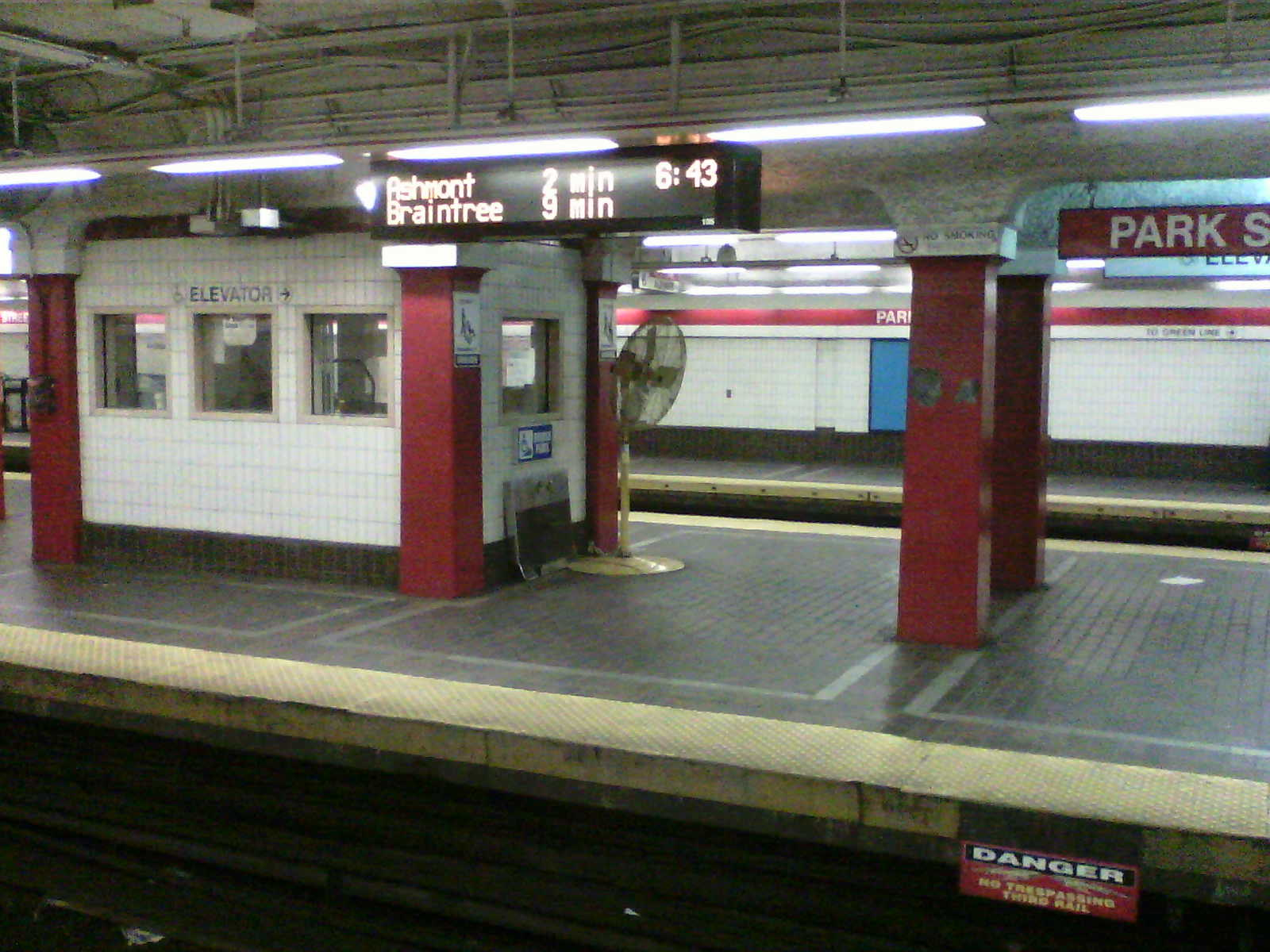 View of the southbound side of the Park Street Red Line station in Boston, Massachusetts, showing a Daktronics announcement LED display with next train arrival times.